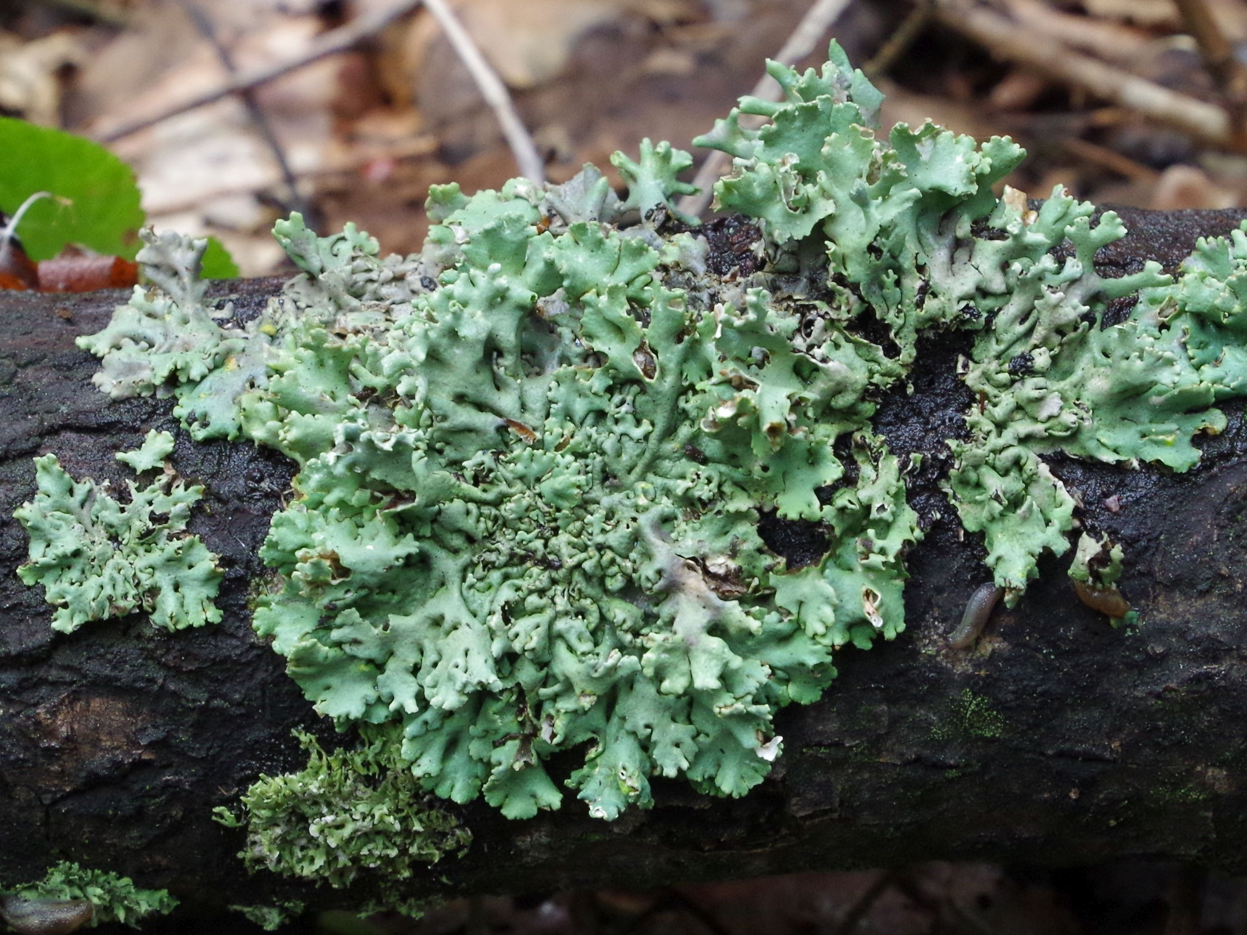 Hypogymnia physodes (location:Poland)